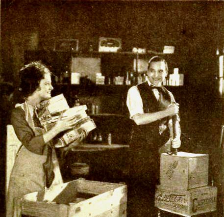 Still from the American comedy film The Fortune Hunter (1920) with Jean Paige and Earle Williams, on page 49 of the April / May 1920 Motion Picture Magazine.